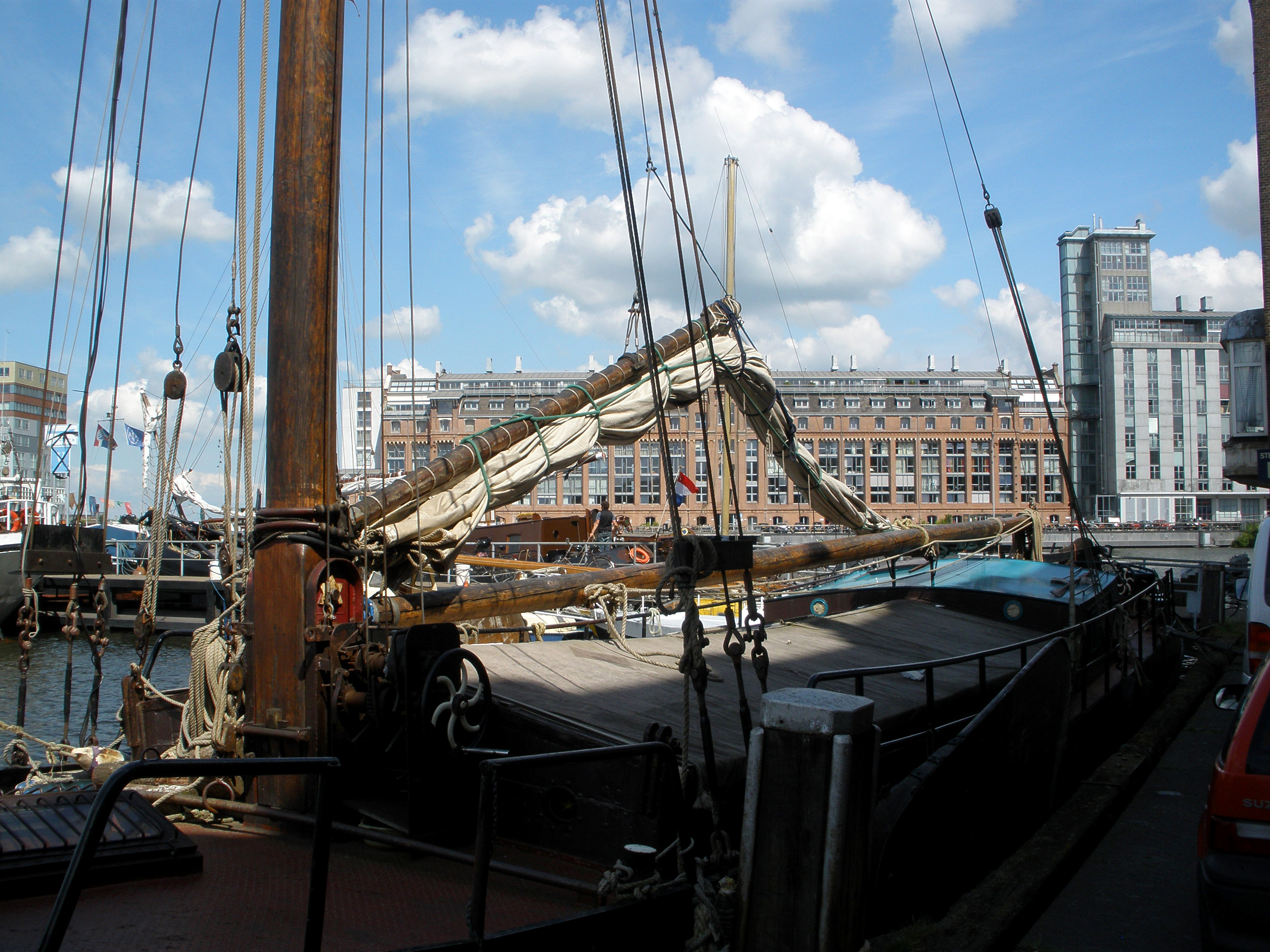 The Oude Houthaven, a harbour in Amsterdam. In the background, the Silodam with two former grain silos converted into apartment buildings.